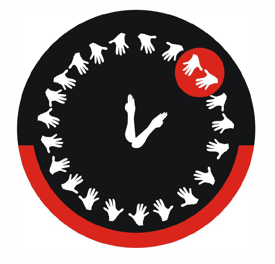 Hand Made Theatre logo